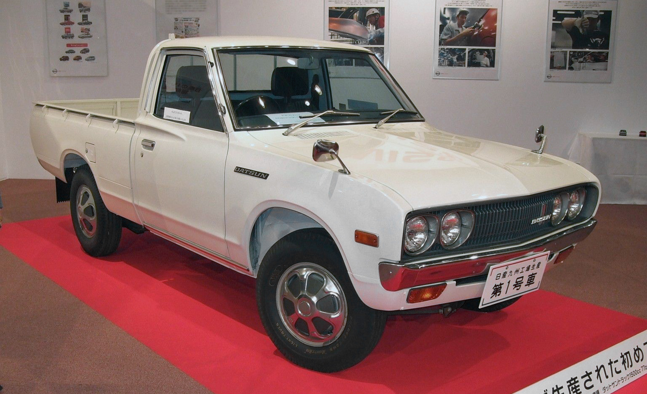 Datsun 620(Single cab) Location:in Fukuoka Motor Show held in December 7-10, 2007, at Fukuoka International Congress Center.